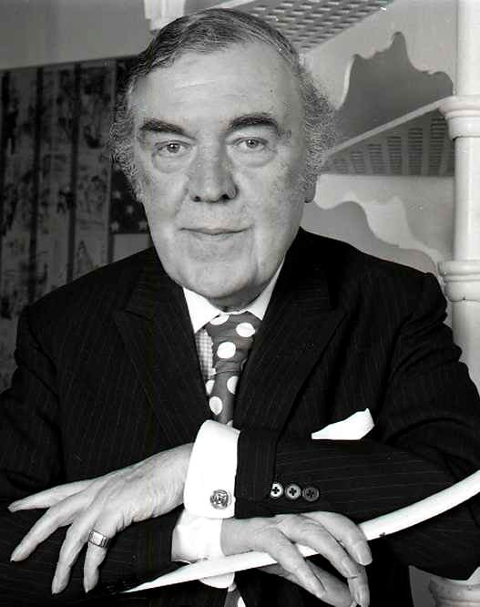 portrait taken of Sir Norman in Allan Warren's London studio